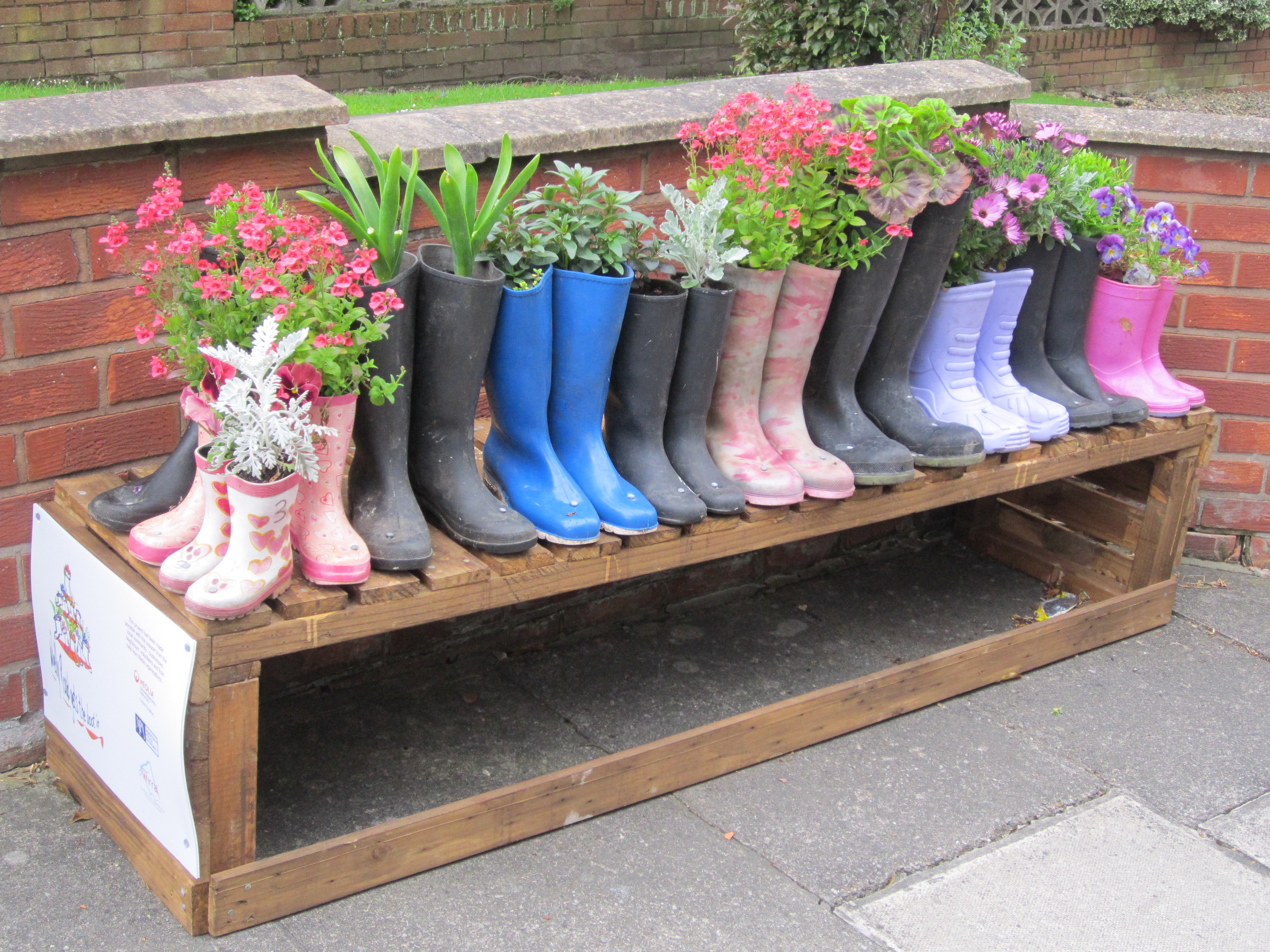 Wellington boots used as planters in Wellington Road, Oxton, Birkenhead, Merseyside, England.